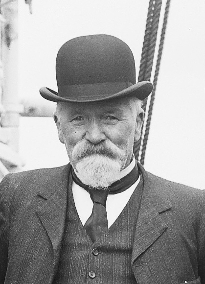 Group on board the ship Corinthic, upon the return of William Hall-Jones in 1908. From left to right: John Andrew Millar, Robert McNab, James McGowan, William Hall-Jones, John George Findlay, George Fowlds. Photograph taken by Sydney Charles Smith.